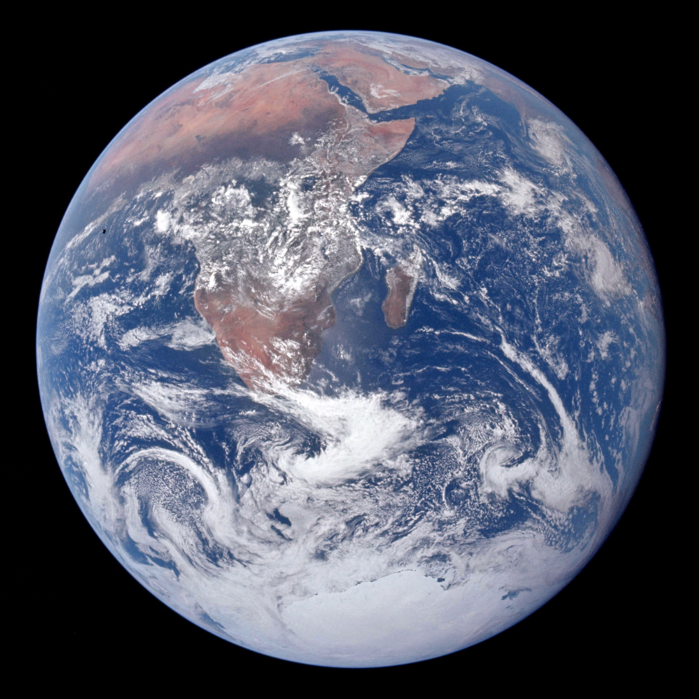 "The Blue Marble" is a famous photograph of the Earth taken on December 7, 1972, by the crew of the Apollo 17 spacecraft en route to the Moon at a distance of about 29,000 kilometres (18,000 mi). It shows Africa, Antarctica, and the Arabian Peninsula.